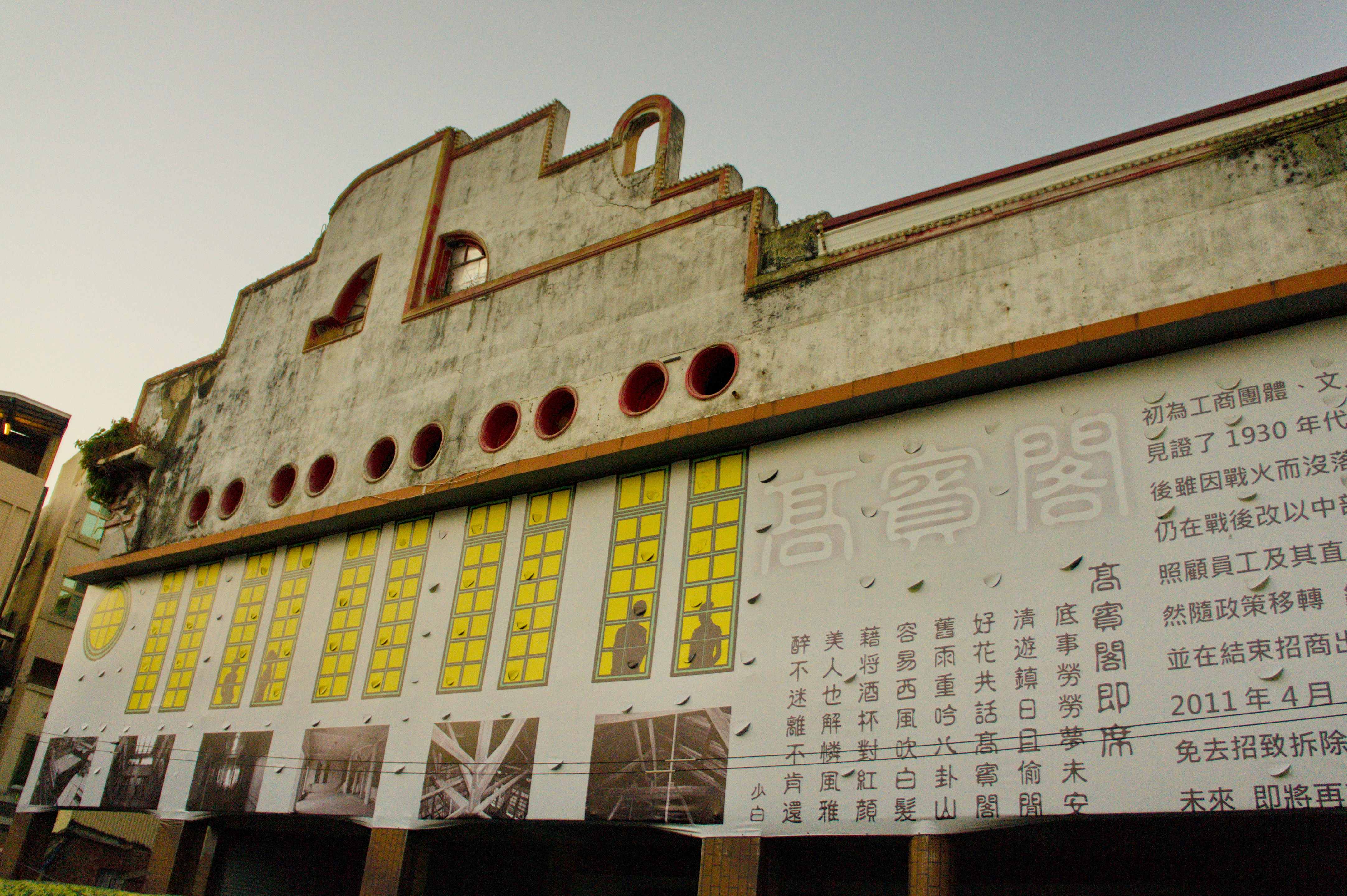 Former Changhua Railway Hospital, Changhua City, Taiwan.